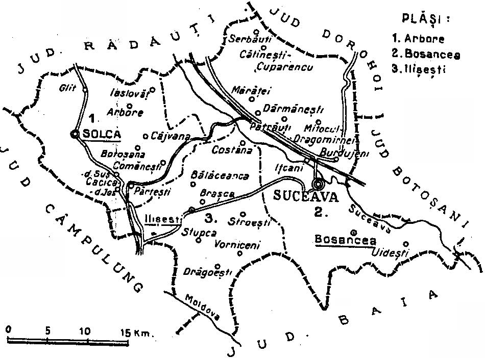 Map of Suceava interwar county, Kingdom of Romania (1938).